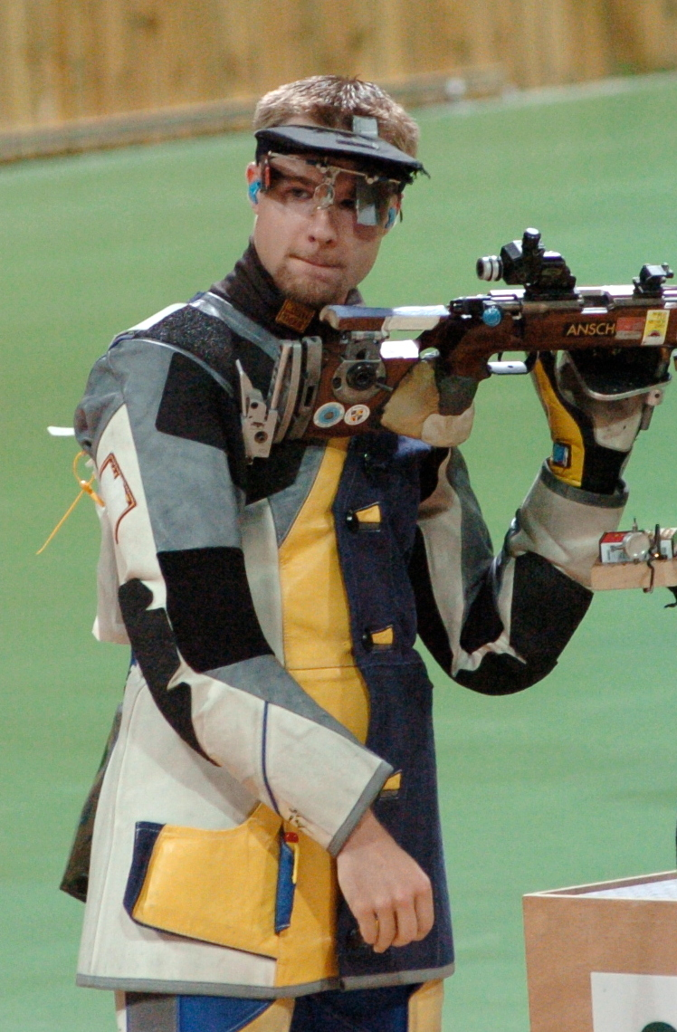 2004 Summer Olympics - Army World Class Athlete Program - FMWRC - U.S. Army - Official Image Archive - Athens Greece - XXVIII Olympiad